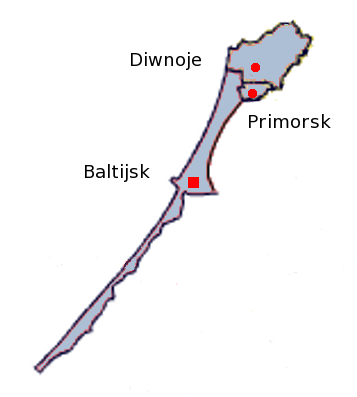 The administrational division of the Baltiysky District in German transcription